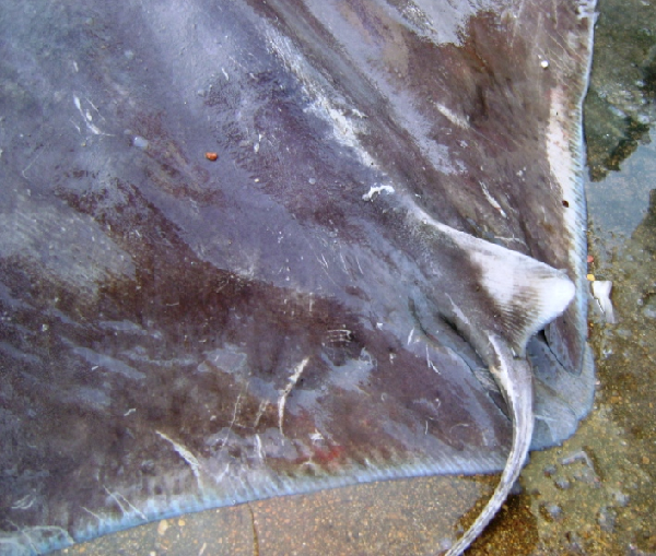 Mobula eregoodootenkee in Karachi, Pakistan